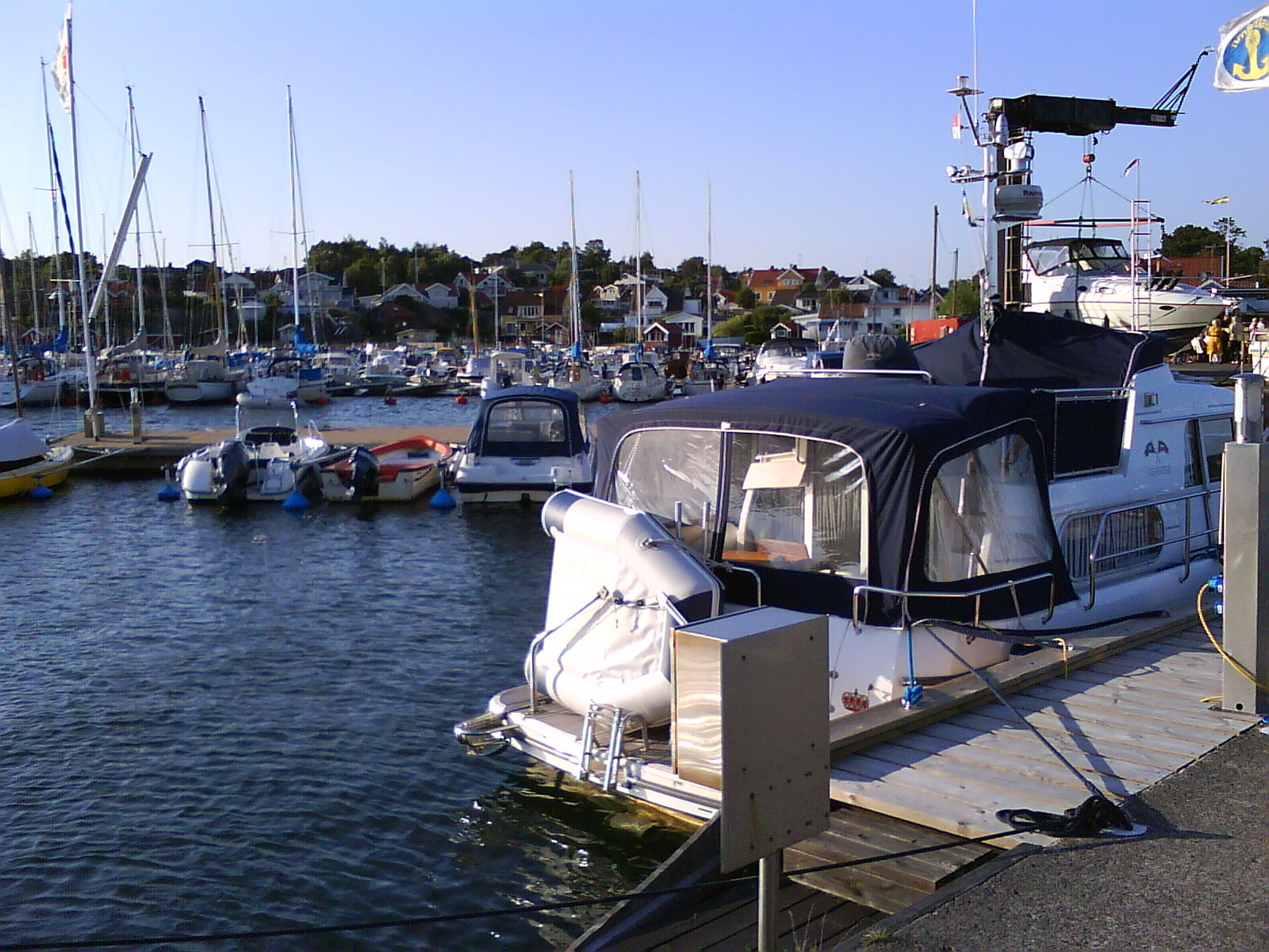 2009 in Gottskärs hamn in Onsala, Sweden